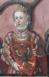 Anna of Poland, Duchess of Pomerania